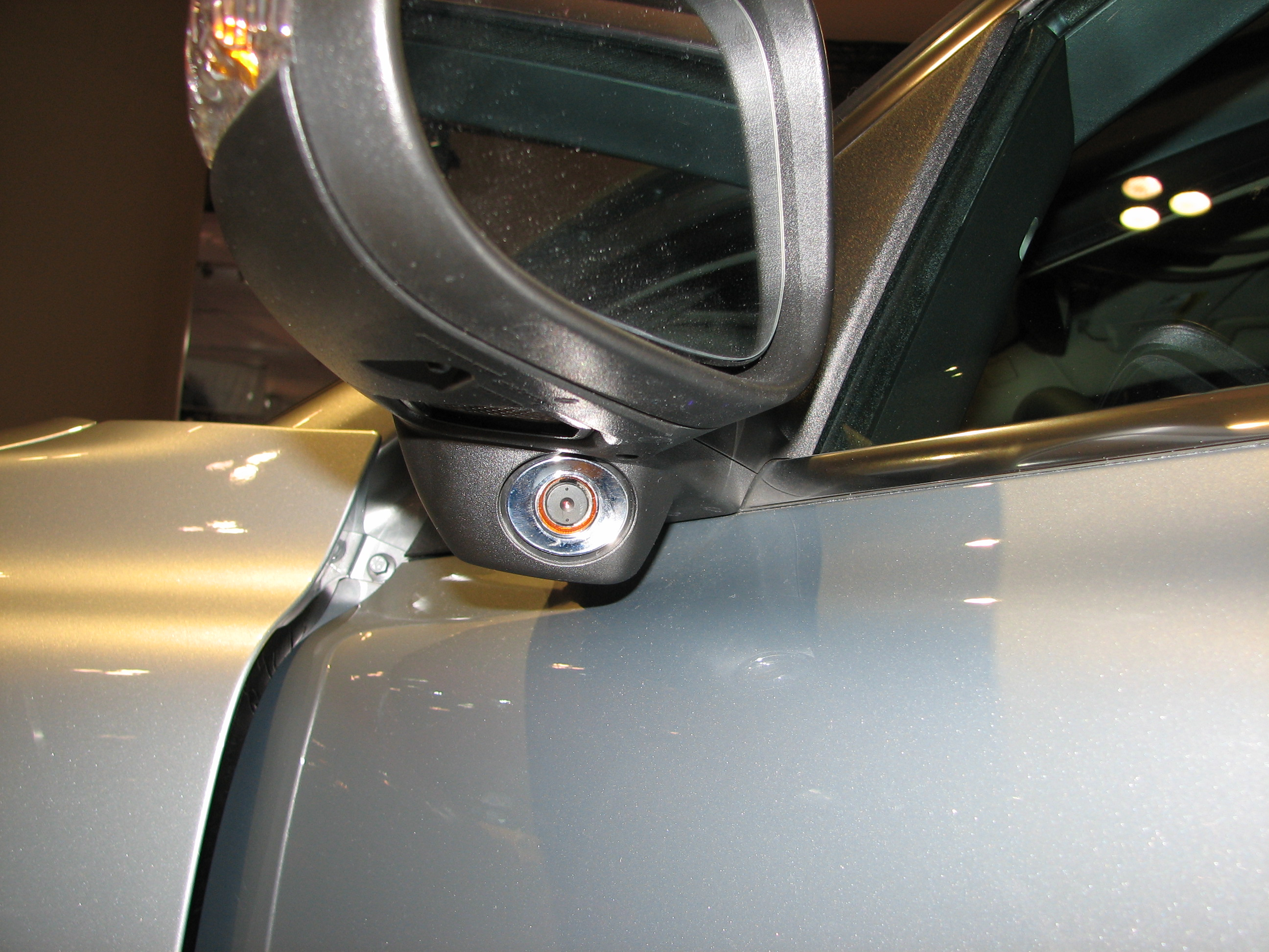 Volvo BLIS at the International Autoshow 2007 in Toronto.